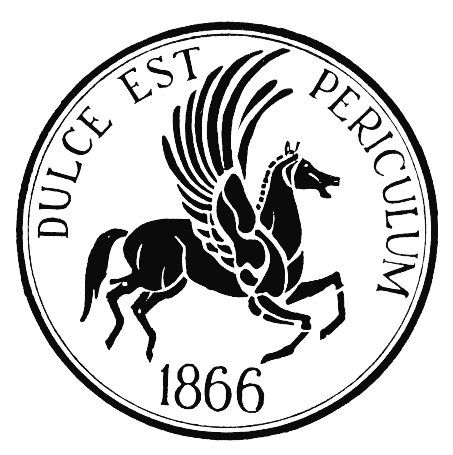 Seal of the Harvard Advocate